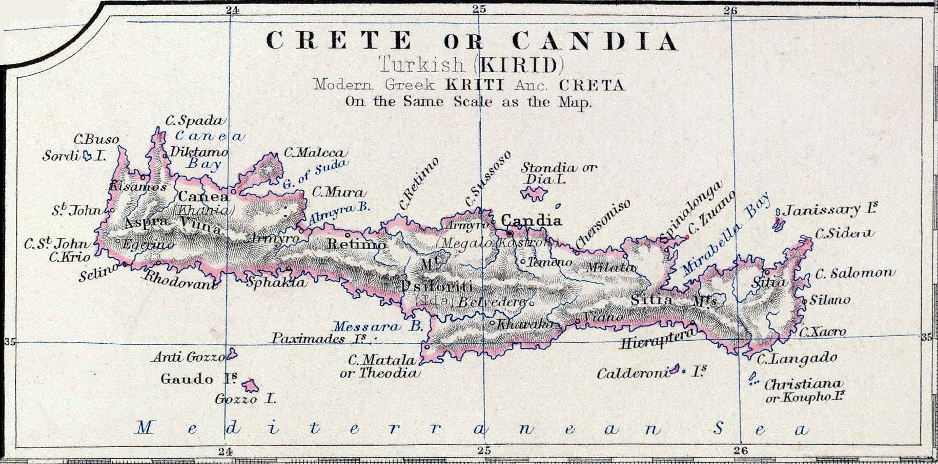 Map Crete or Candia part of map Turkey in Europe